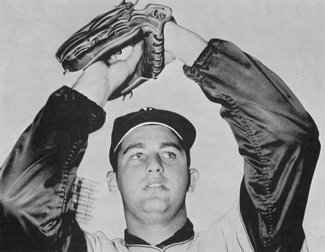 Professional baseball player Larry Sherry